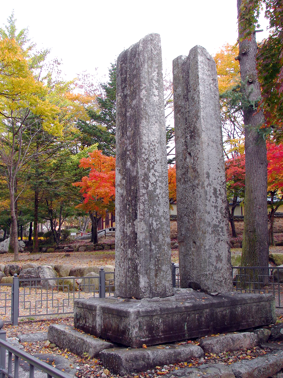 Geumsansa Dangganjiju (Buddhist flagpole supports of Geumsansa Temple) are the two posts used to support the flagpole for a ceremony at the temple. A flag mounted on a stone or iron pole was used to indicate the location of a temple. Assumed to have built at the late 8th century the posts are valued as the only one in Korea with the original base still intact. National Treasure #28.